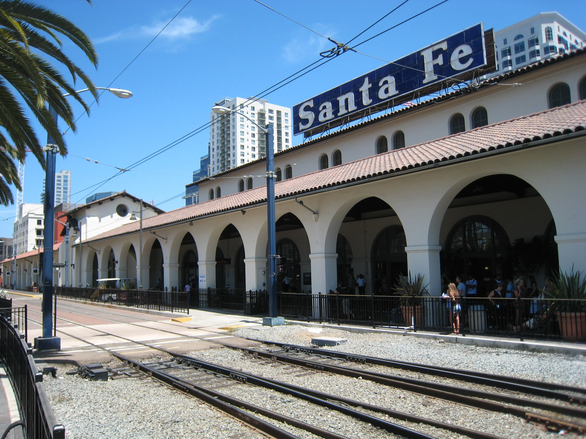 San Diego Train Station The old Santa Fe Depot.